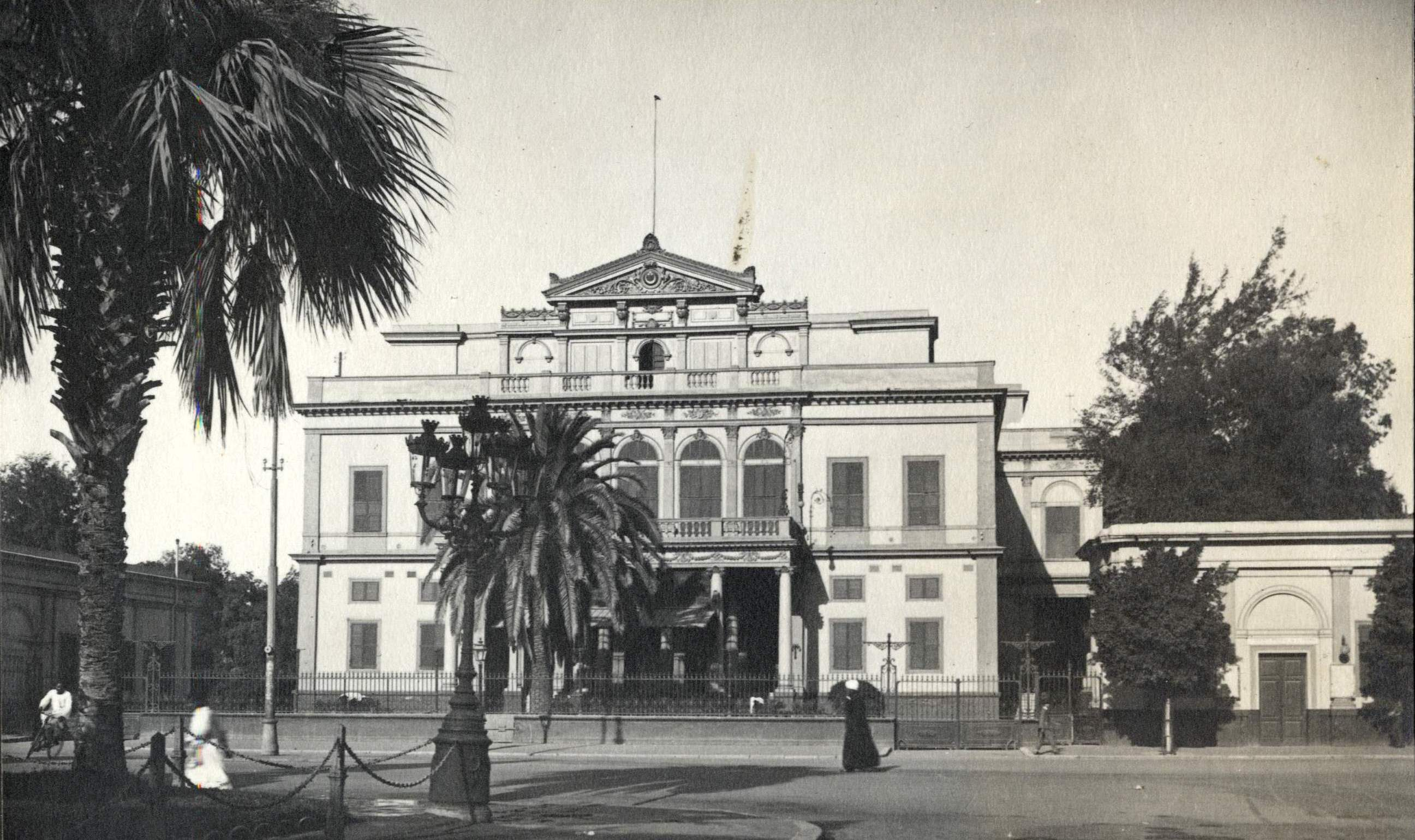 The Khedivial Opera House, with a date palm and fan palm, in 1869.